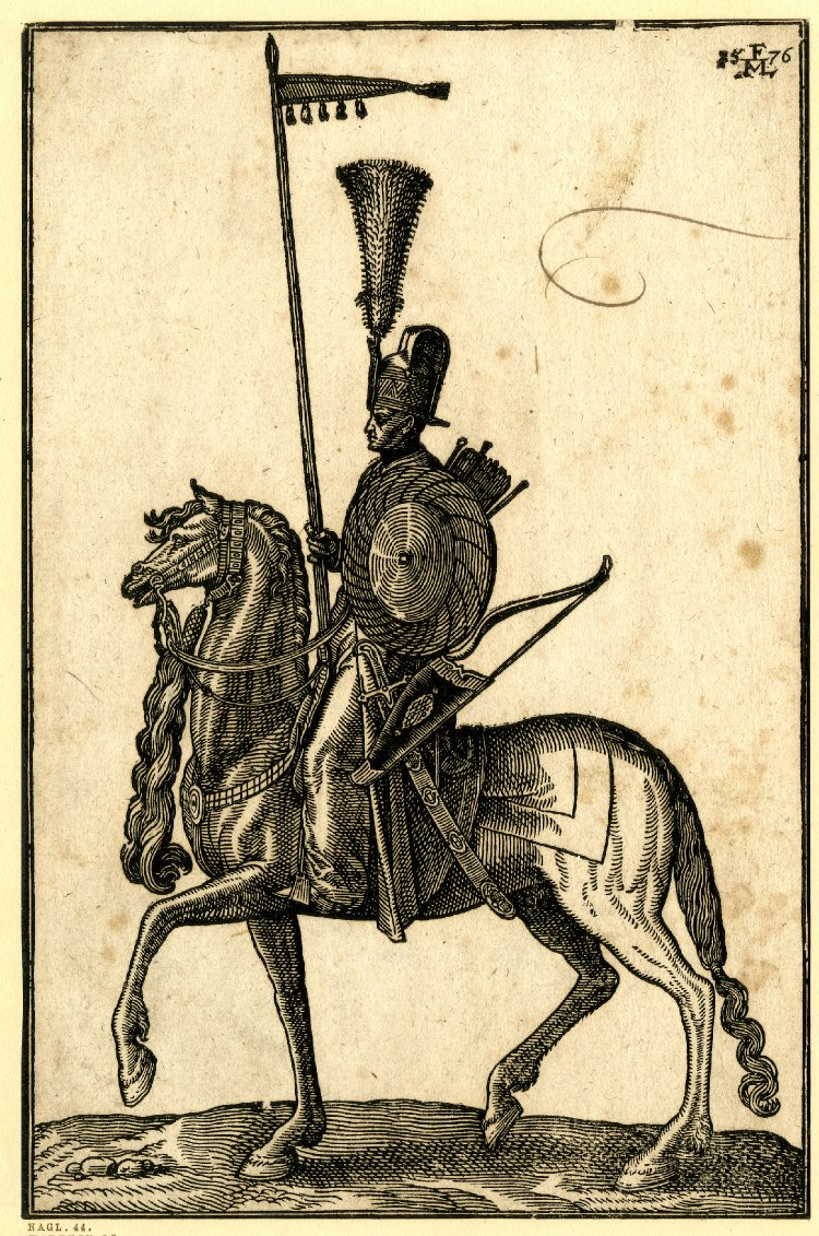 Ottoman Soldiers from contemporary European Illustrations by Melchior Lorck, 1570-83